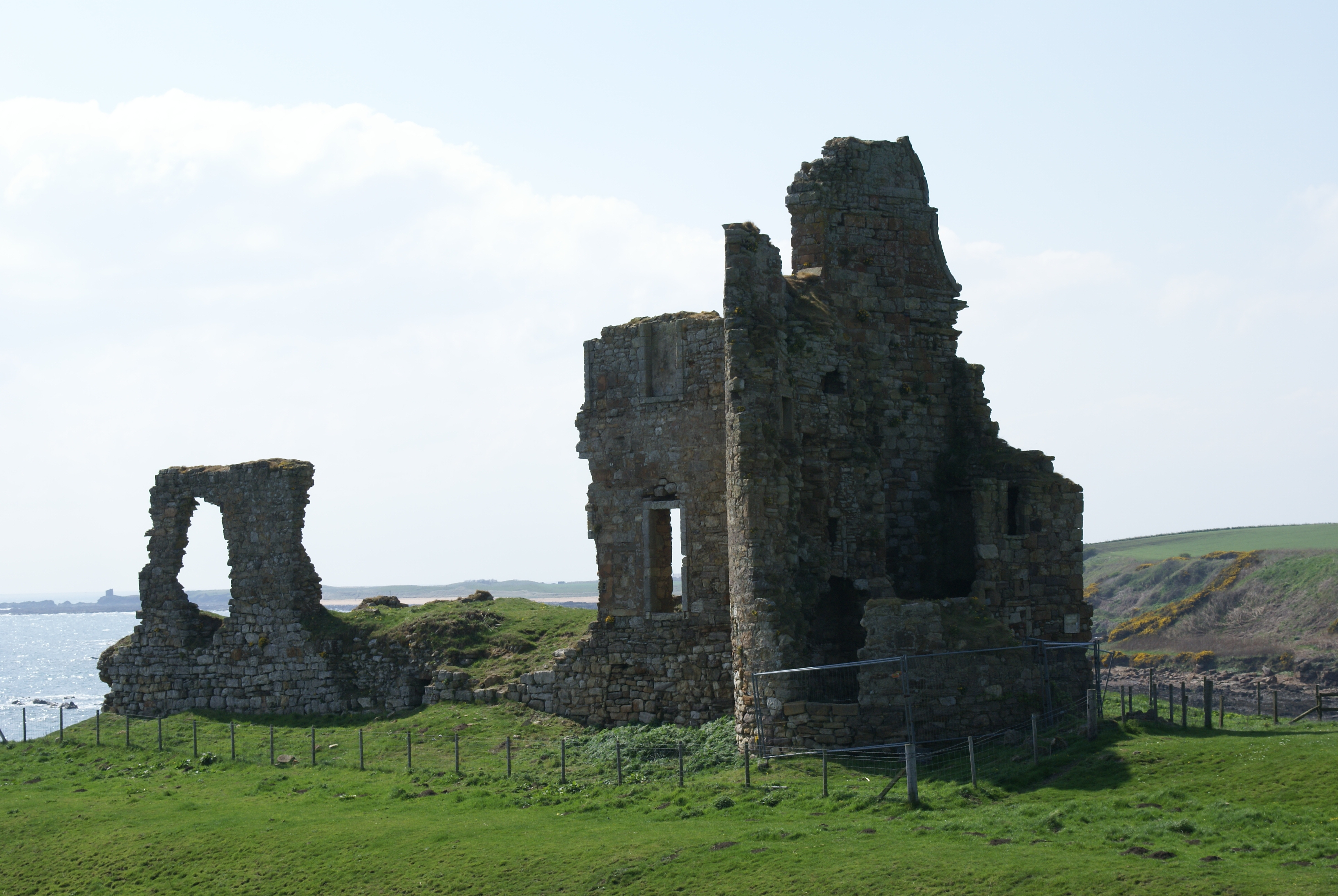 The remains of Newark Castle, St Monans, Fife.